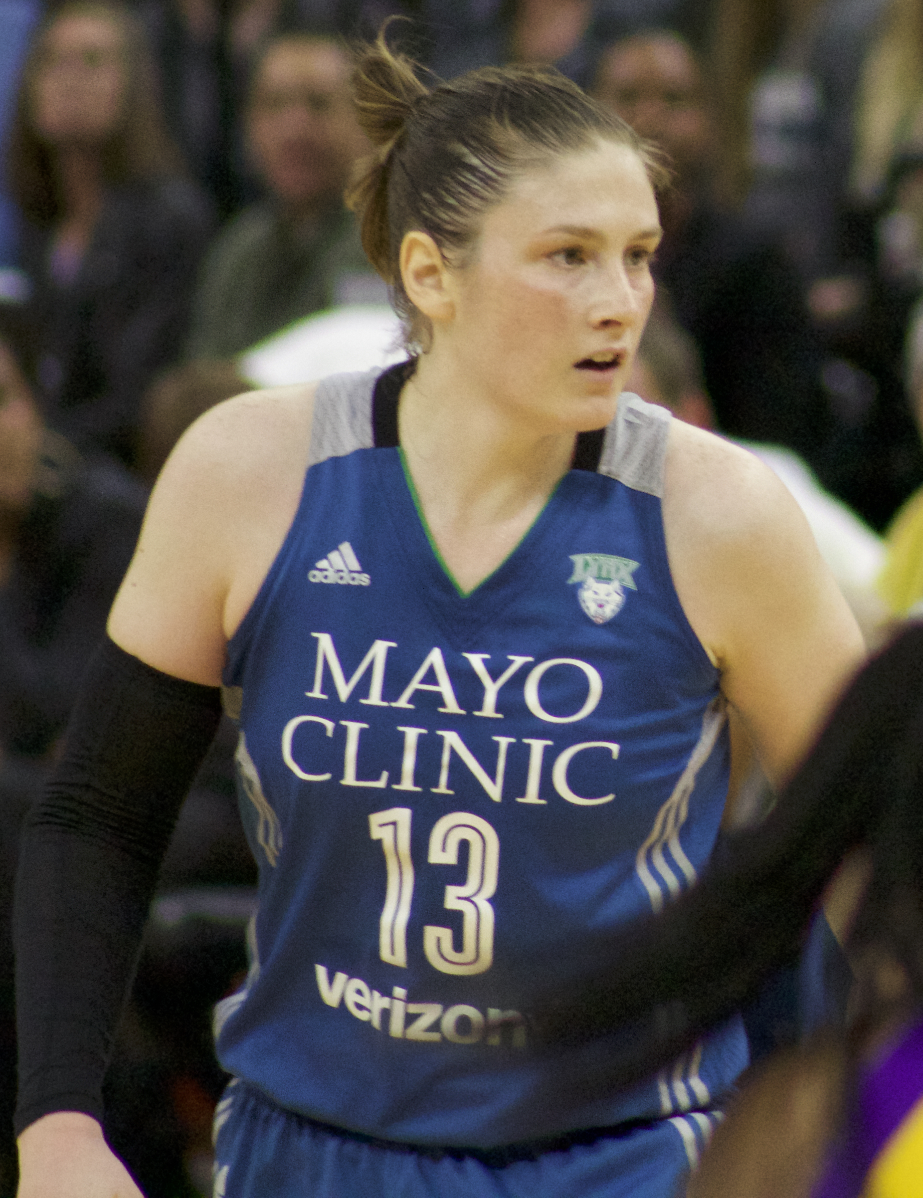 Lindsay Whalen of the Minnesota Lynx